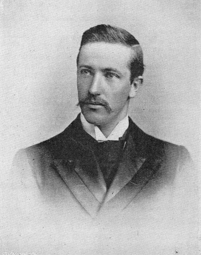 Scan from original